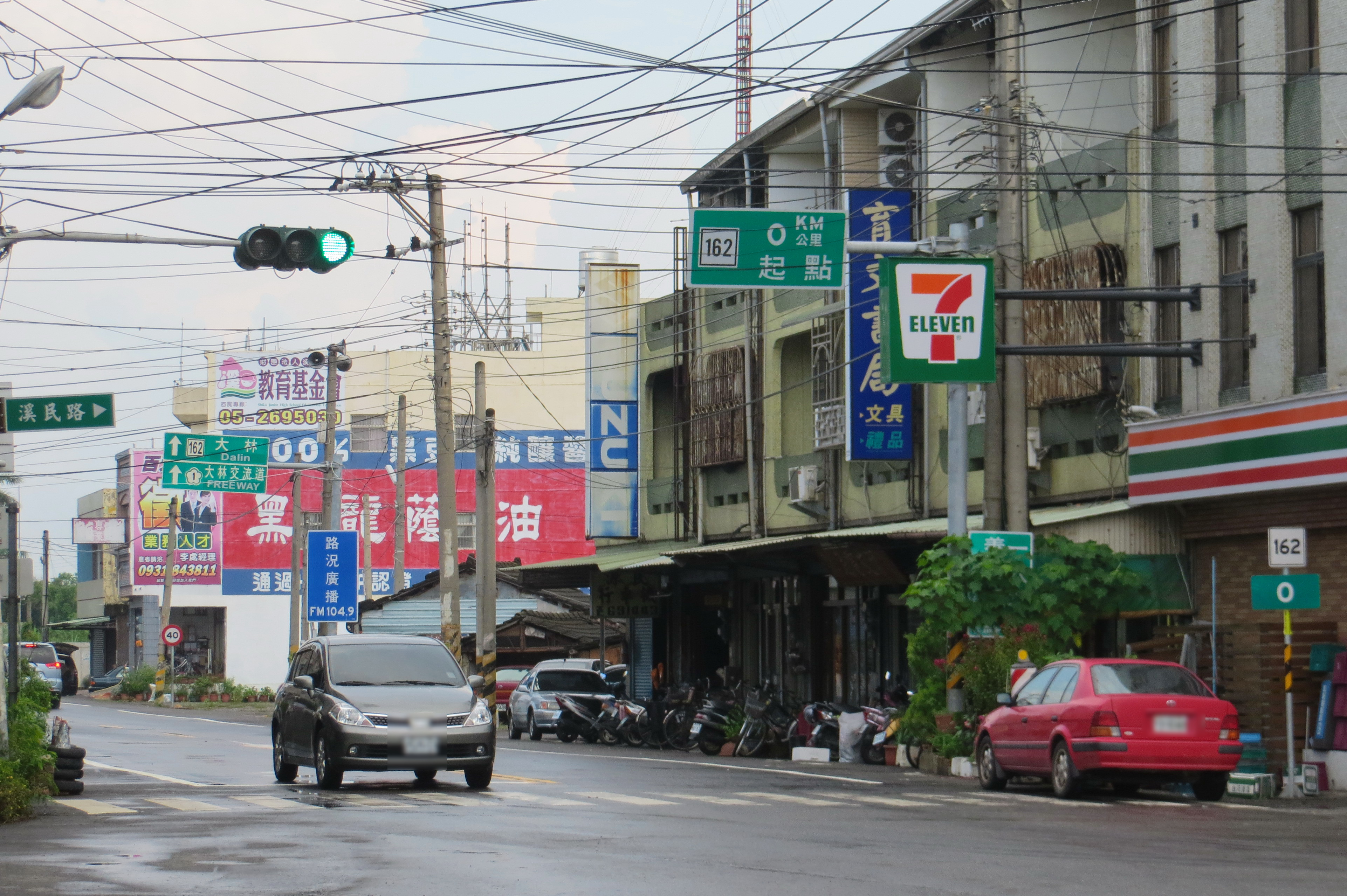 County Road 162 , Chiayi County, Taiwan.